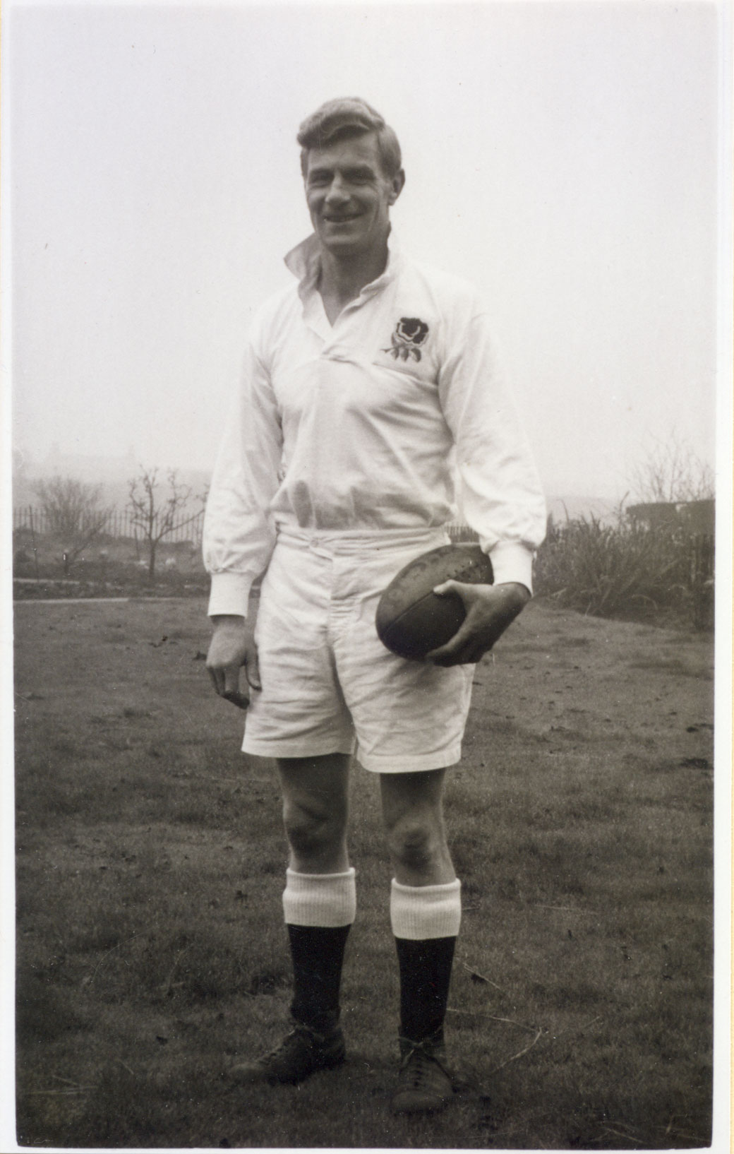 Eric Evans was the captain of the England rugby union team from 1956 to 1958. Evans was awarded his first England cap in 1948, becoming best known as a hooker. In 1956 he was named England captain and in 1957 led his country to their first Grand Slam since 1928.